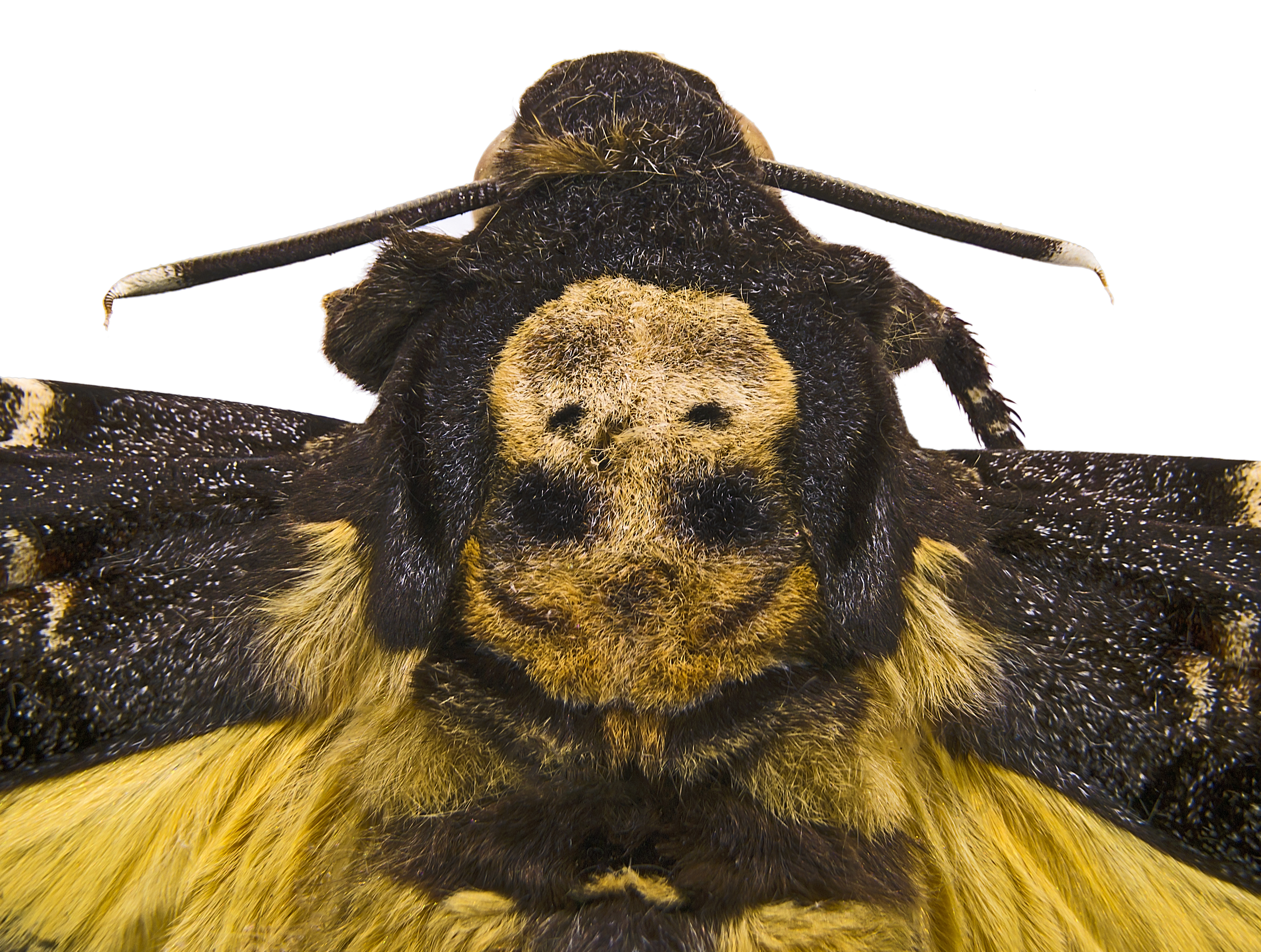 Death's-head Hawk moth – “Death's-head”